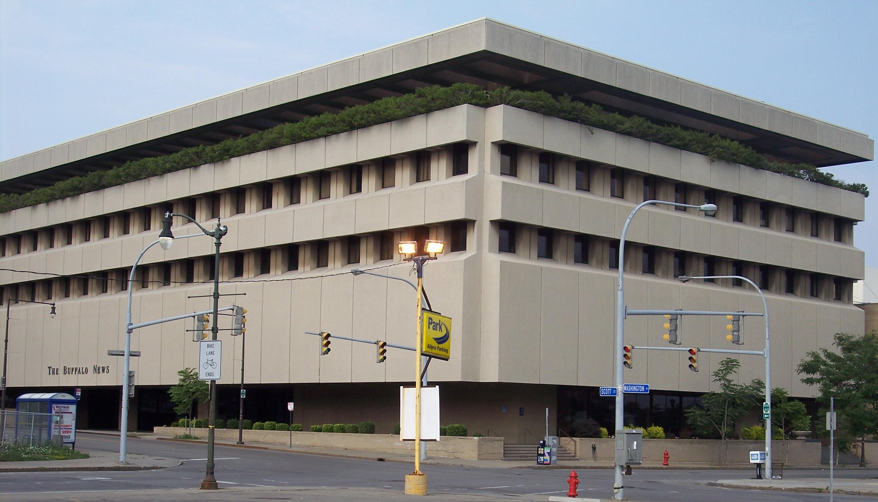 Buffalo News Building, 1 News Plaza Buffalo, New York 14203